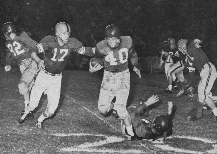 An American football game between the 1952 Houston Cougars and the Ole Miss Rebels. Mississippi's Reed (#17) attempts to stop Houston's rush by Tommy Bailes (#40).